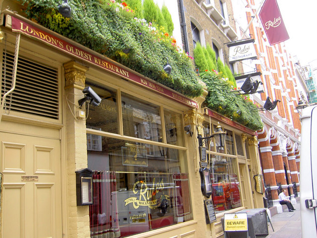 Rules, London's oldest restaurant. The private dining rooms were well favoured by the PM of the day Margaret Thatcher.